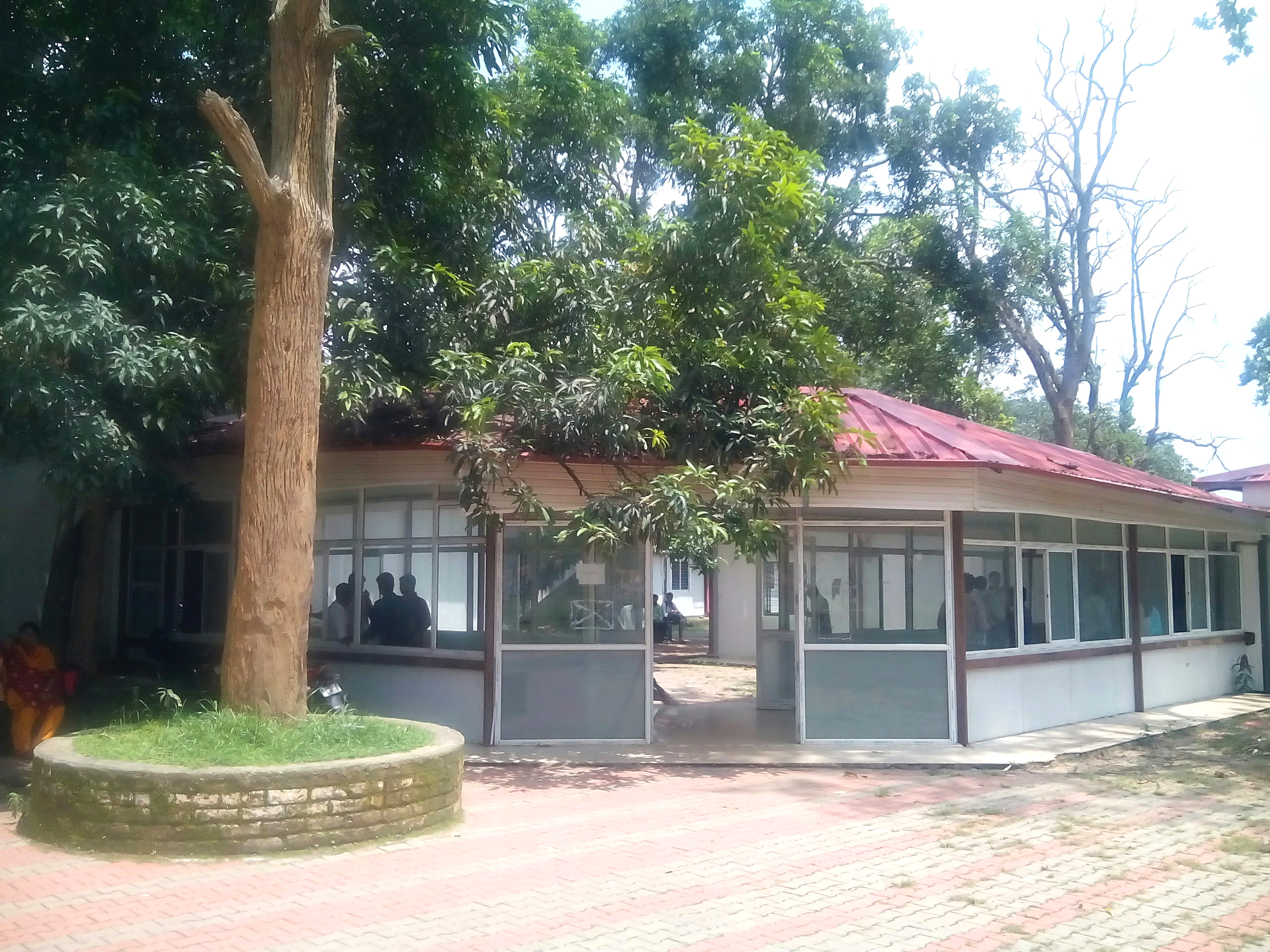 Inner view of Central University of Jharkhand